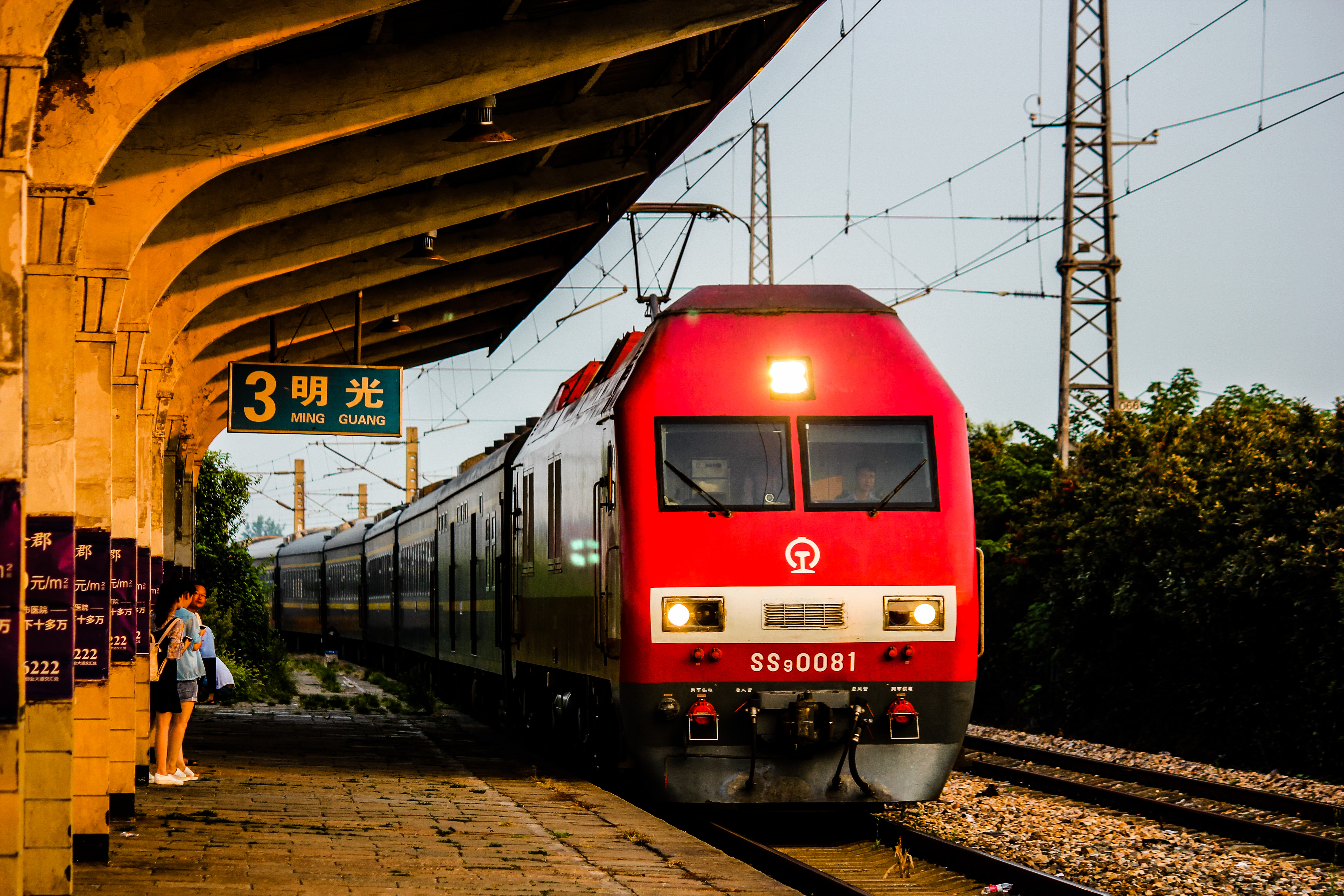 1462 @ Mingguang Station